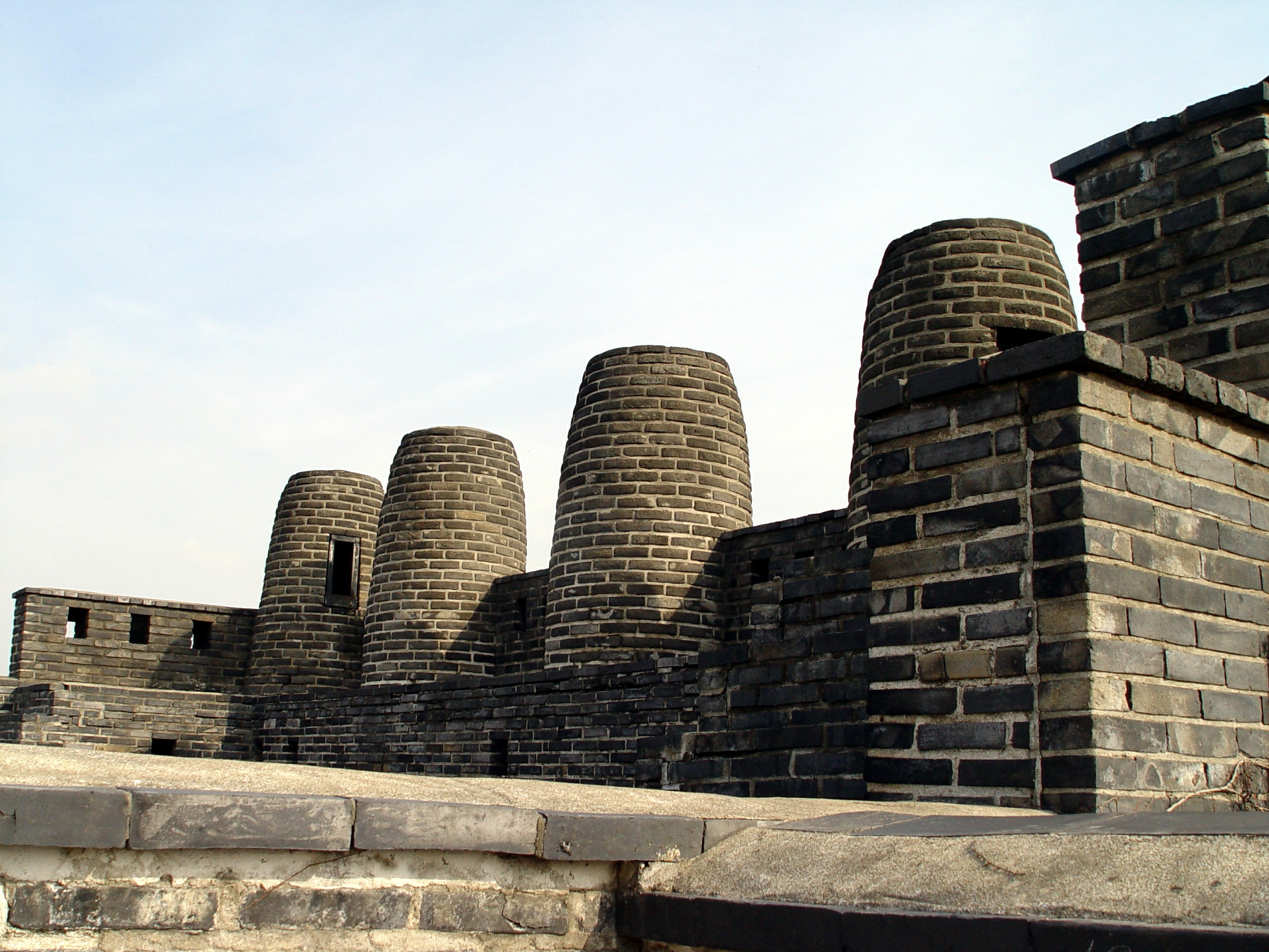 Bongdon seen from the wall, Hwaseong, Suwon, South Korea